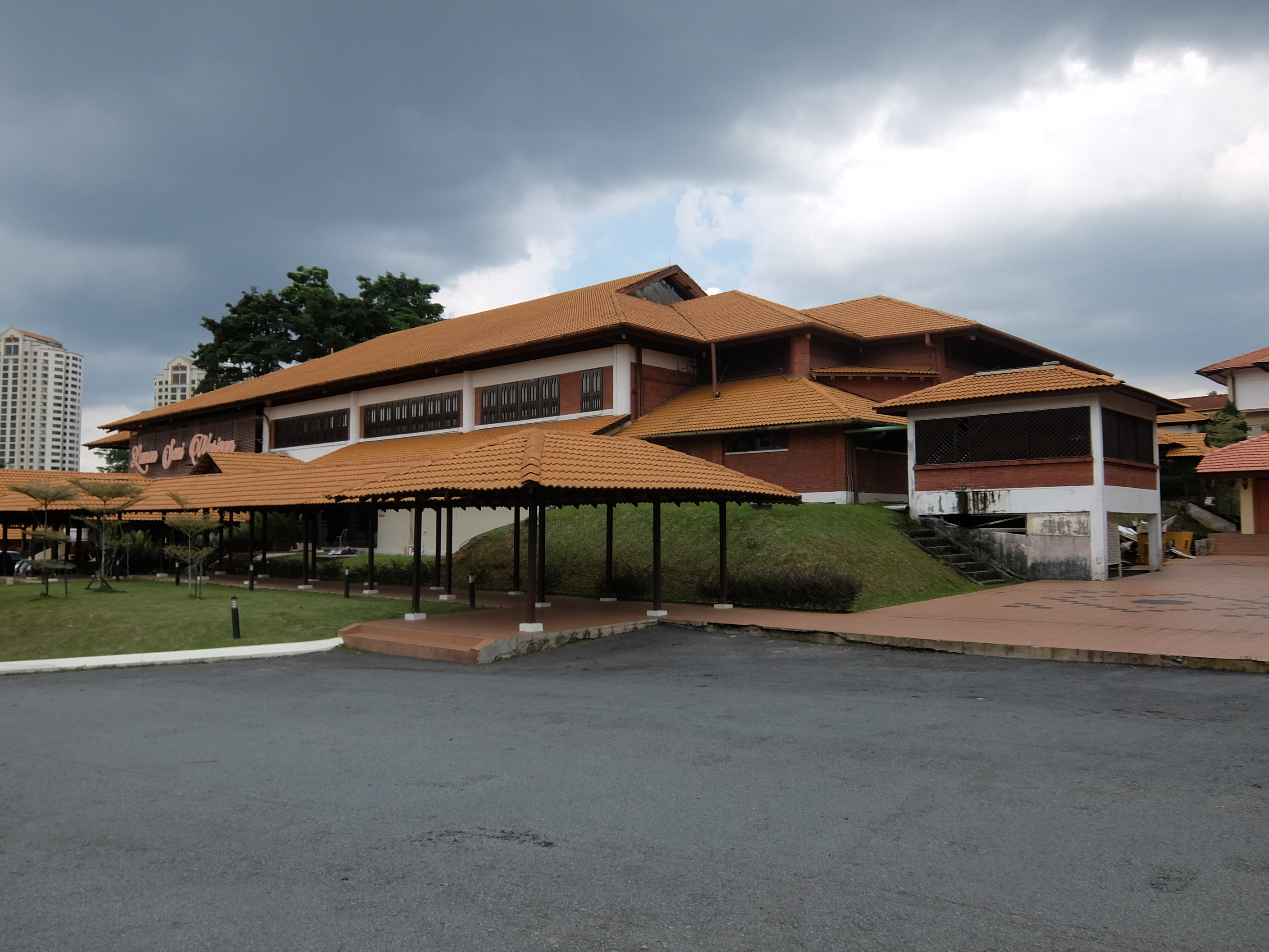 Johor Heritage Foundation, Johor Bahru, Johor, Malaysia